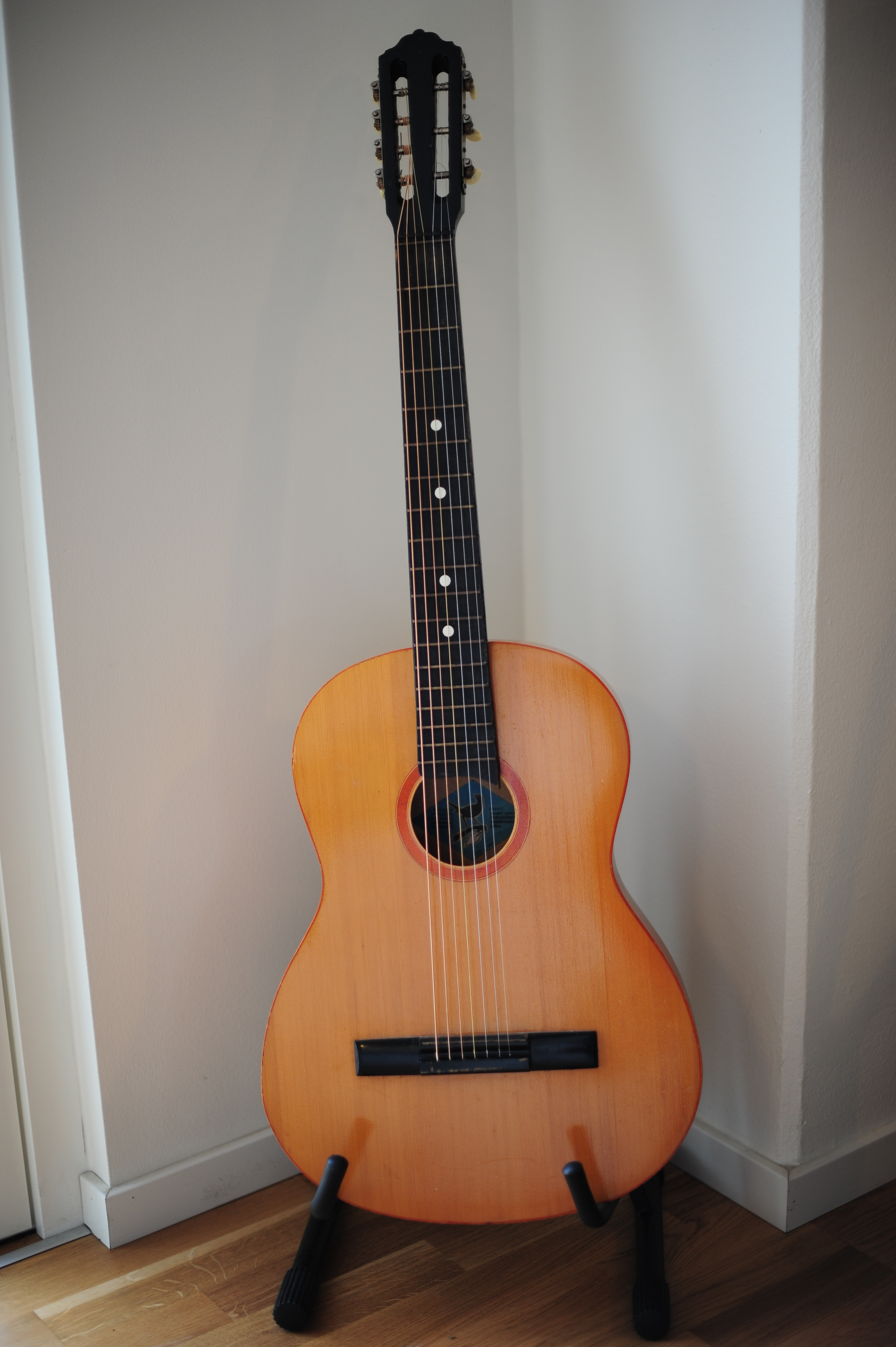 A Russian acoustic guitar with seven strings that was manufactured by a cooperative in Leningrad in the Soviet Union (St. Petersburg, Russia). The guitar's machinery is similar to that of a traditional acoustic-guitar (with nylon strings). However, the Russian guitar uses seven strings for an open G tuning G-B-D-G-B-D-G, which is approximately a major-thirds tuning. The picture shows steel strings (recommended by a seller of steel strings). With the excessive tension, the bridge snapped off a few months after this picture was taken. The neck lacks a truss rod, which also suggests that nylon strings are standard.